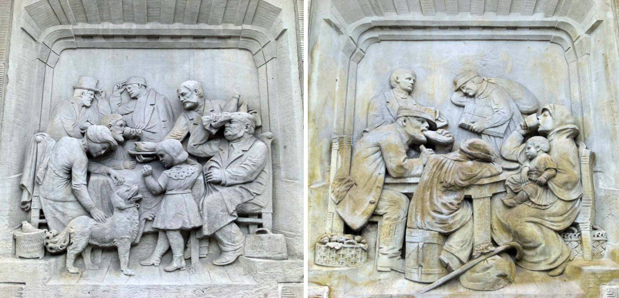 Bas-relief of the waiting room with the buffet of the first and second class (on the left) and the buffet of the third class (on the right).